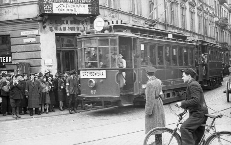 Warsaw Ghetto: Tram with a Star on the corner of Leszno and Karmelicka Streets. In the back photographer studio and a drug store in Karmelicka 1 / Leszno 30 building.